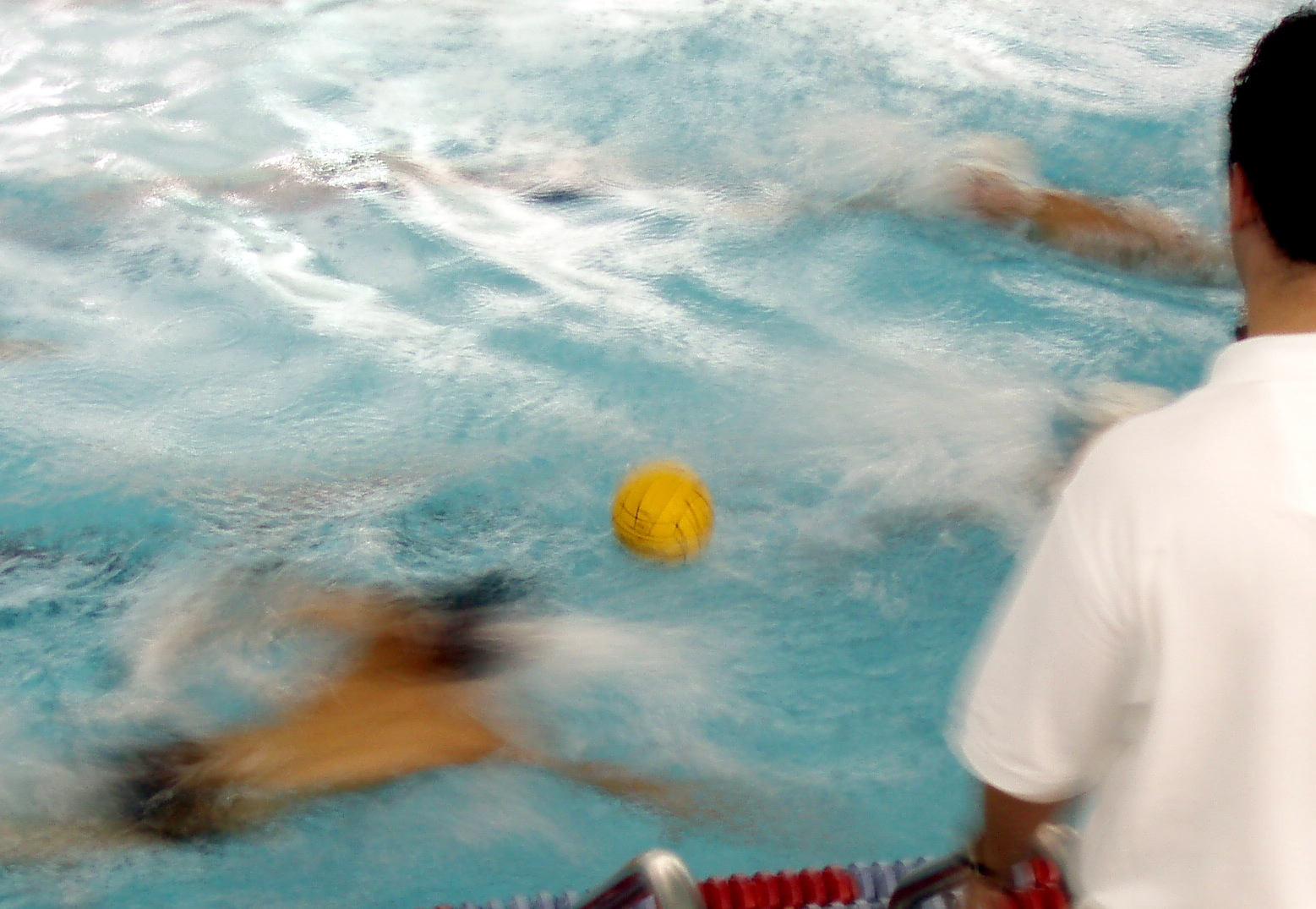 A Water Polo Swimoff